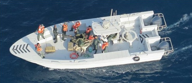 Iranian patrol boat pictured by the Kokuka Courageous after the